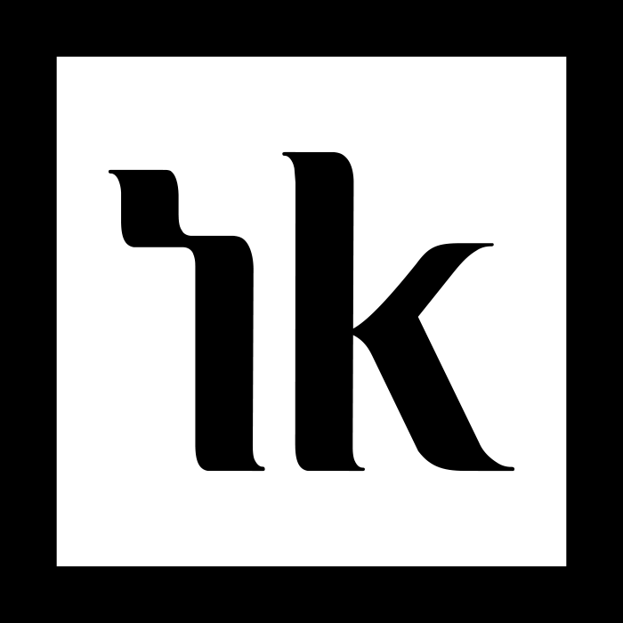 Indonesia Kreatif